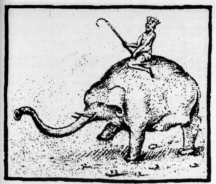 sketch of King Manuel I riding Hanno.